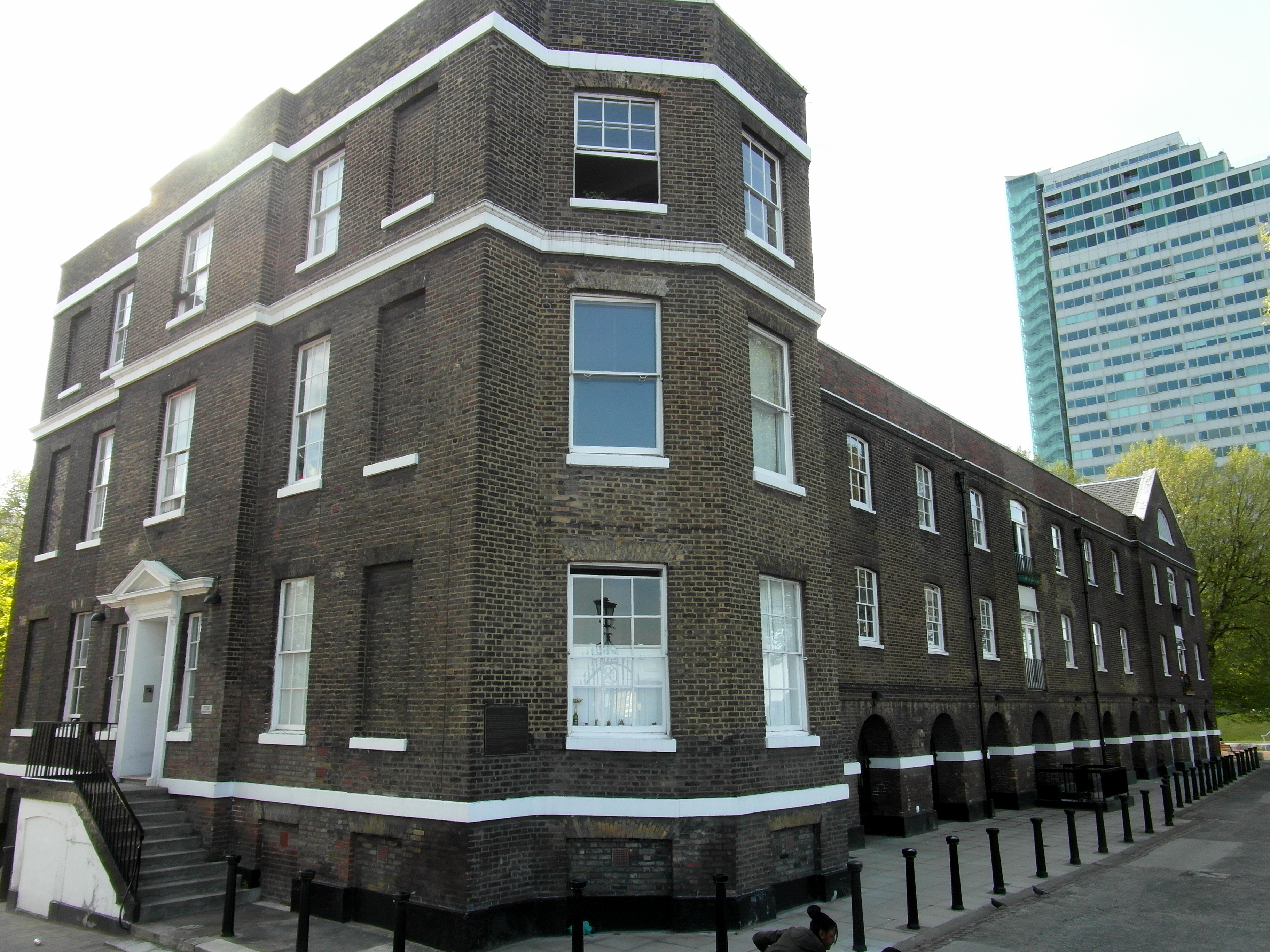 1781-98. A large warehouse building facing North to the river. The inner return of the building and 3 bays of main front were formerly the Commandant's House.